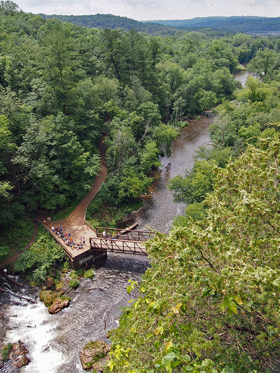 Willow River Gorge from overlook, showing bridge and observation deck at base of Willow Falls, Willow River State Park, Wisconsin, USA. View looking west.